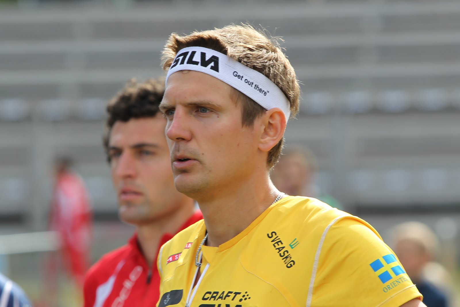 David Andersson at World Orienteering Championships 2010 in Trondheim, Norway